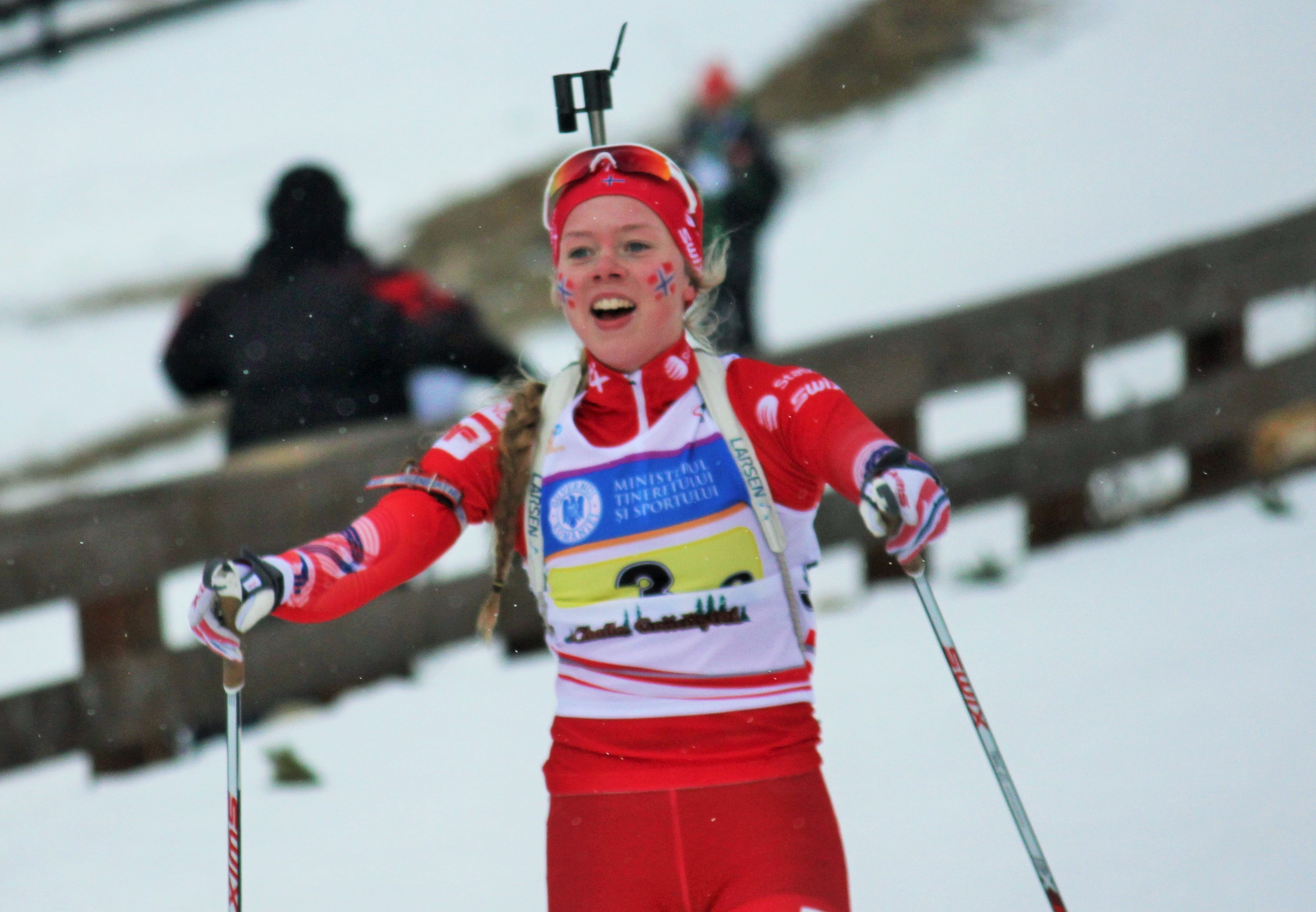 Karoline Erdal in the relay at the Biathlon Junior World Championships 2016.